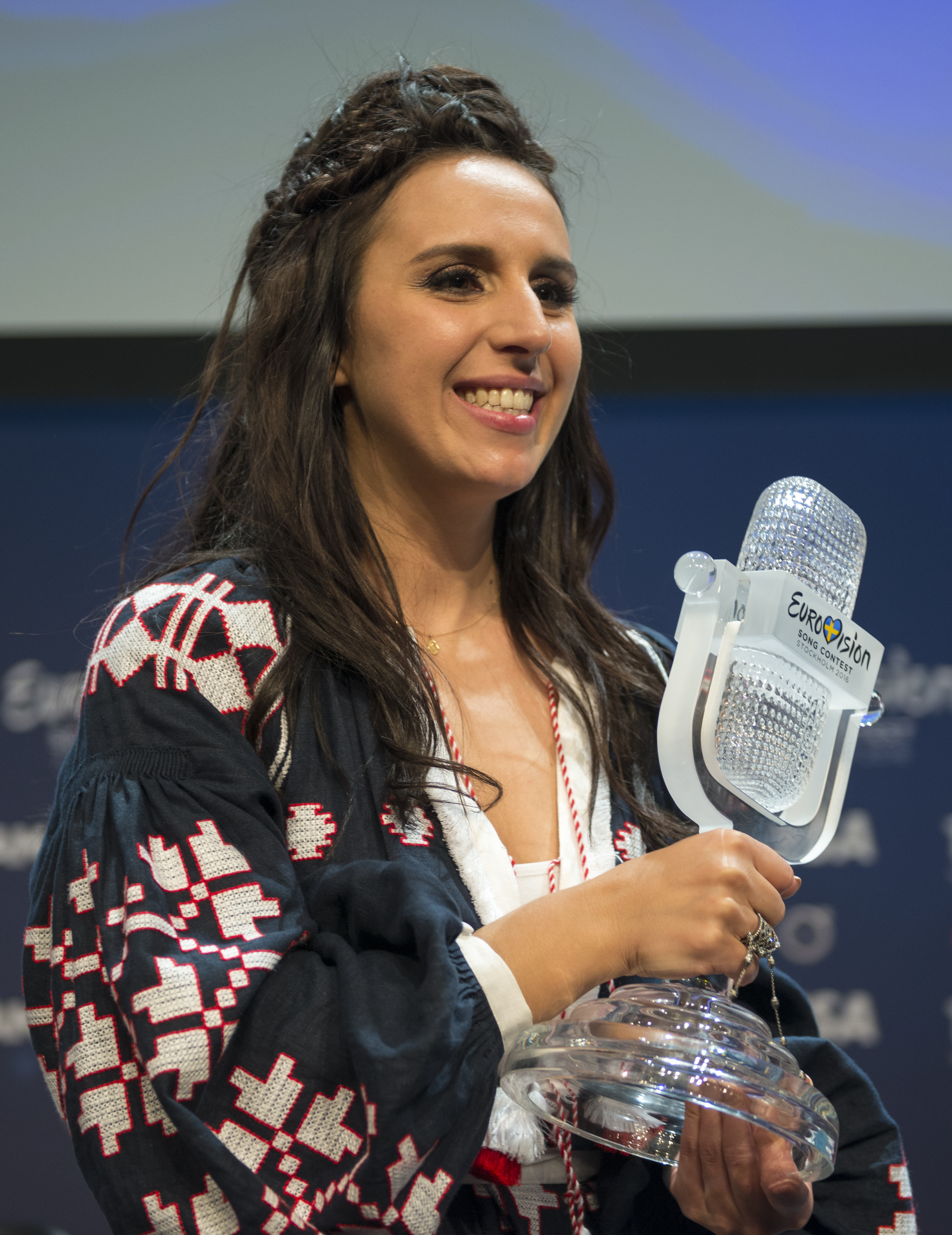 Jamala at the winners press conference, right after winning the Eurovision Song Contest 2016 in Stockholm. (Help translate this text)